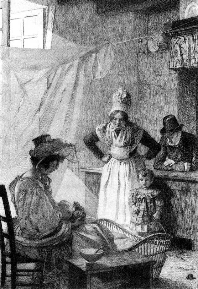 Illustration of Madame Bovary by Gustave Flaubert (1821-1880): Emma Bovary with her Daughter Berthe